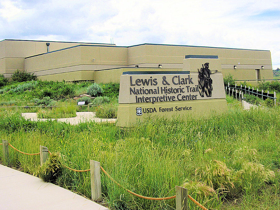 The Lewis and Clark National Historic Trail Interpretive Center — located at Giant Springs State Park, just outside Great Falls, Montana. Operated by the U.S. Department of Agriculture and U.S. Forest Service.